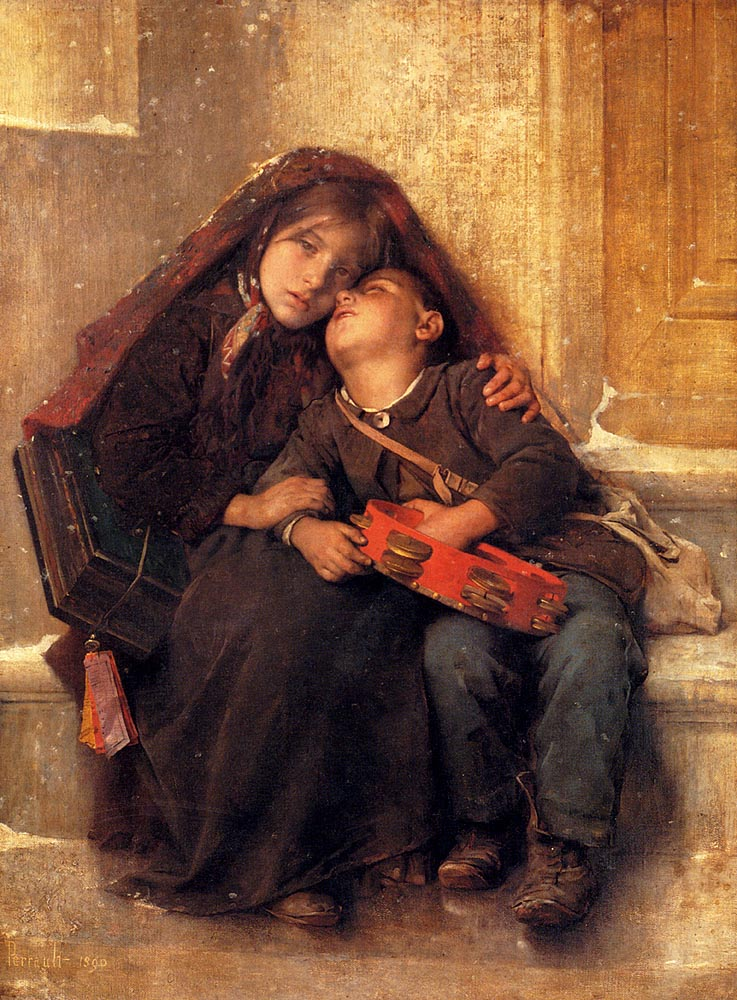 Out In The Cold